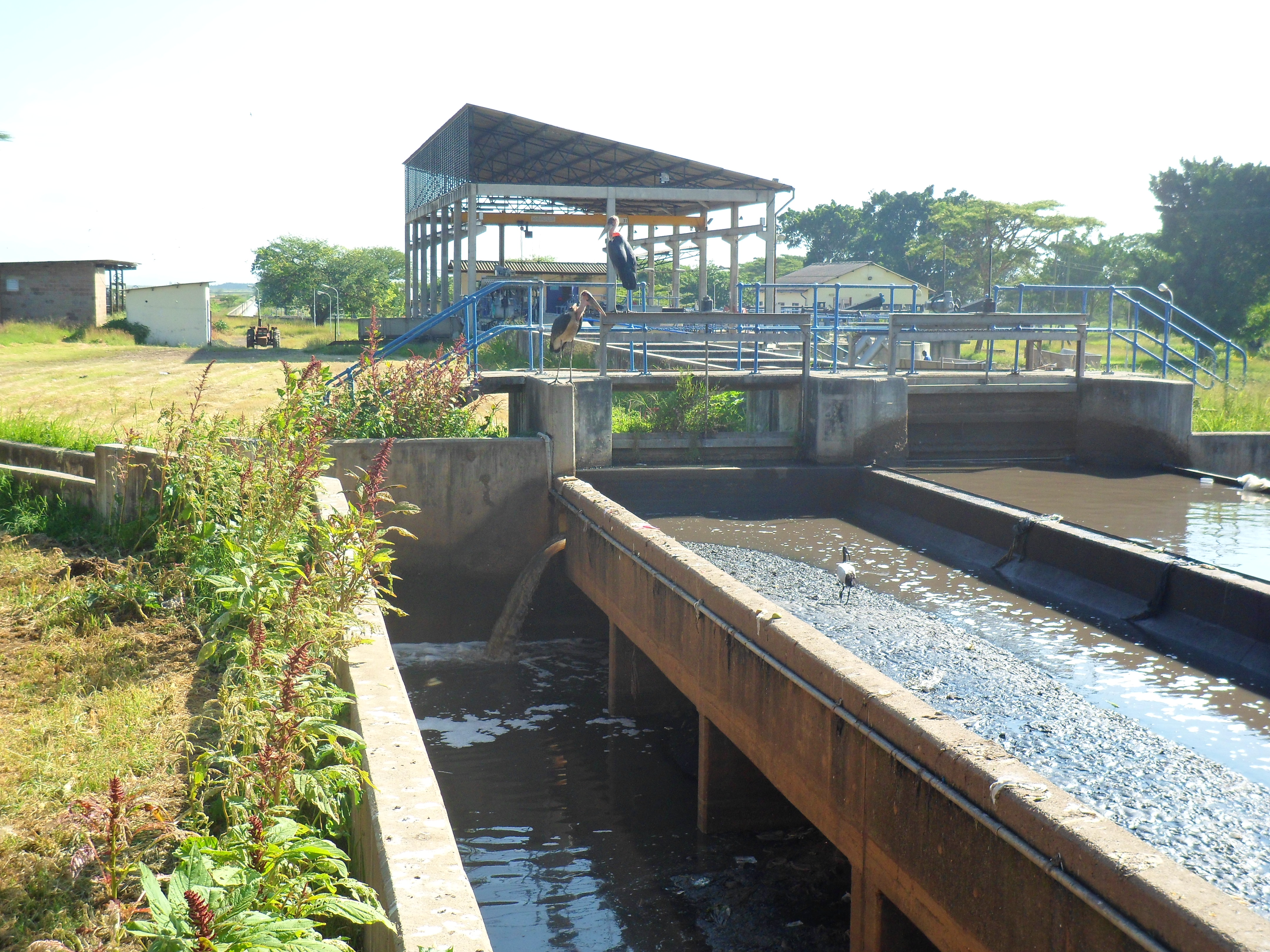 Kenya - Ruai treatment plant (ponds) and Dandora dumping site